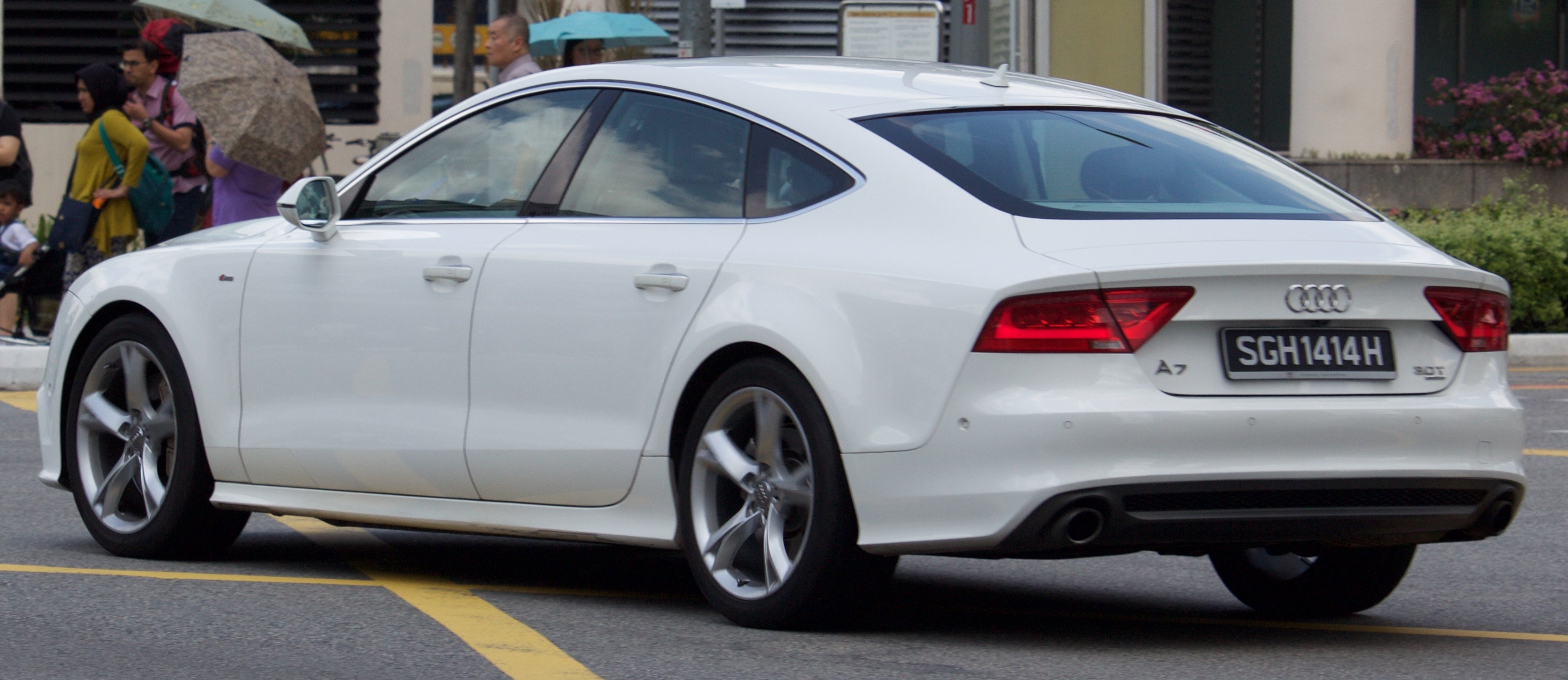 2011 Audi A7 (4G) 3.0 TFSI quattro hatchback. Photographed in Singapore. Vehicle registration enquiry results Jurisdiction Singapore Registration SGH1414H Chassis code WAUZZZ4G5CN050020 (A7 SPORTBACK 3.0 TFSI QU) Engine code CGW023307 Year of manufacture 2011